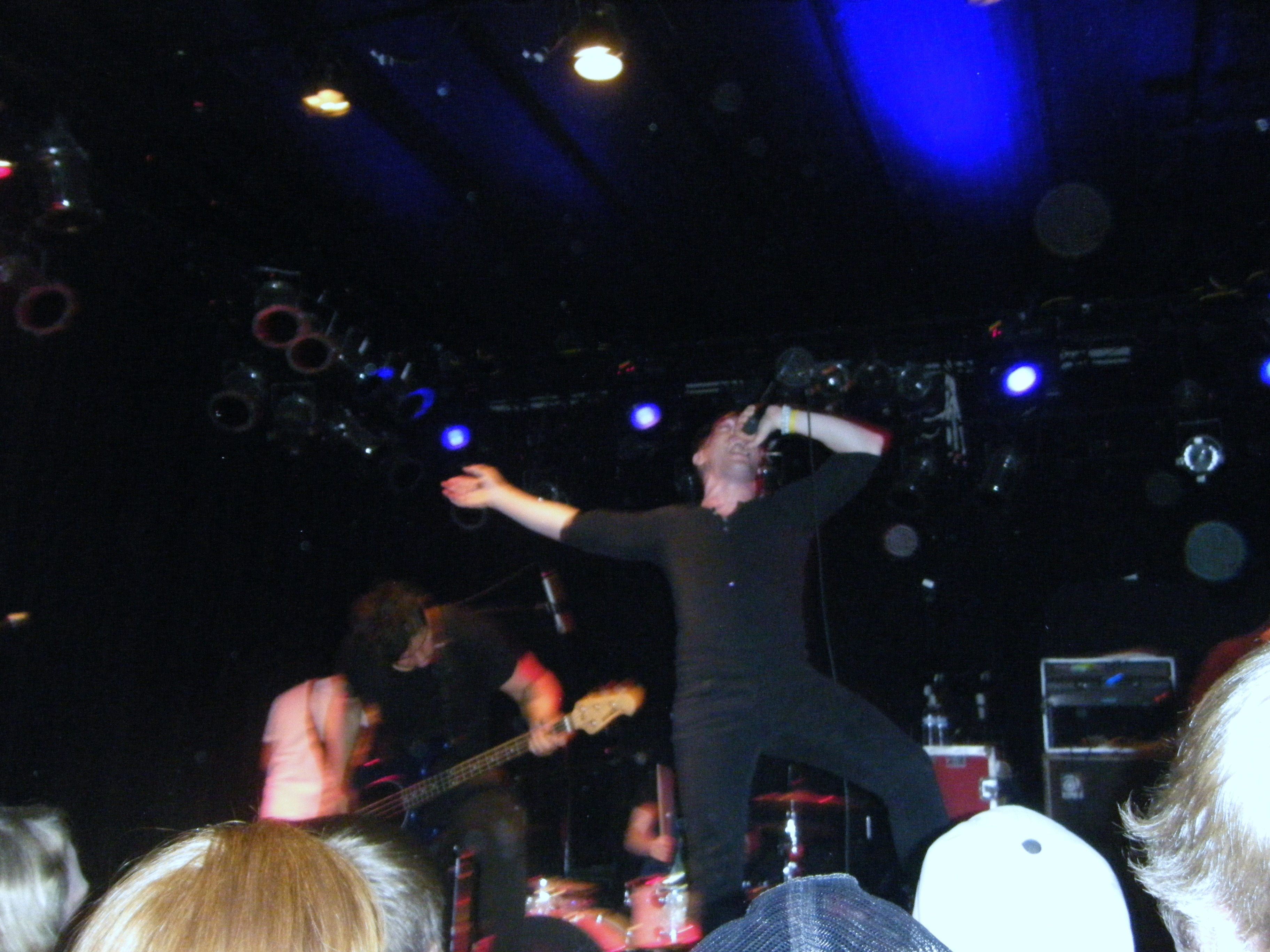 A picture of the band Set It Off performing in Pensacola, FL at Vinyl Music Hall